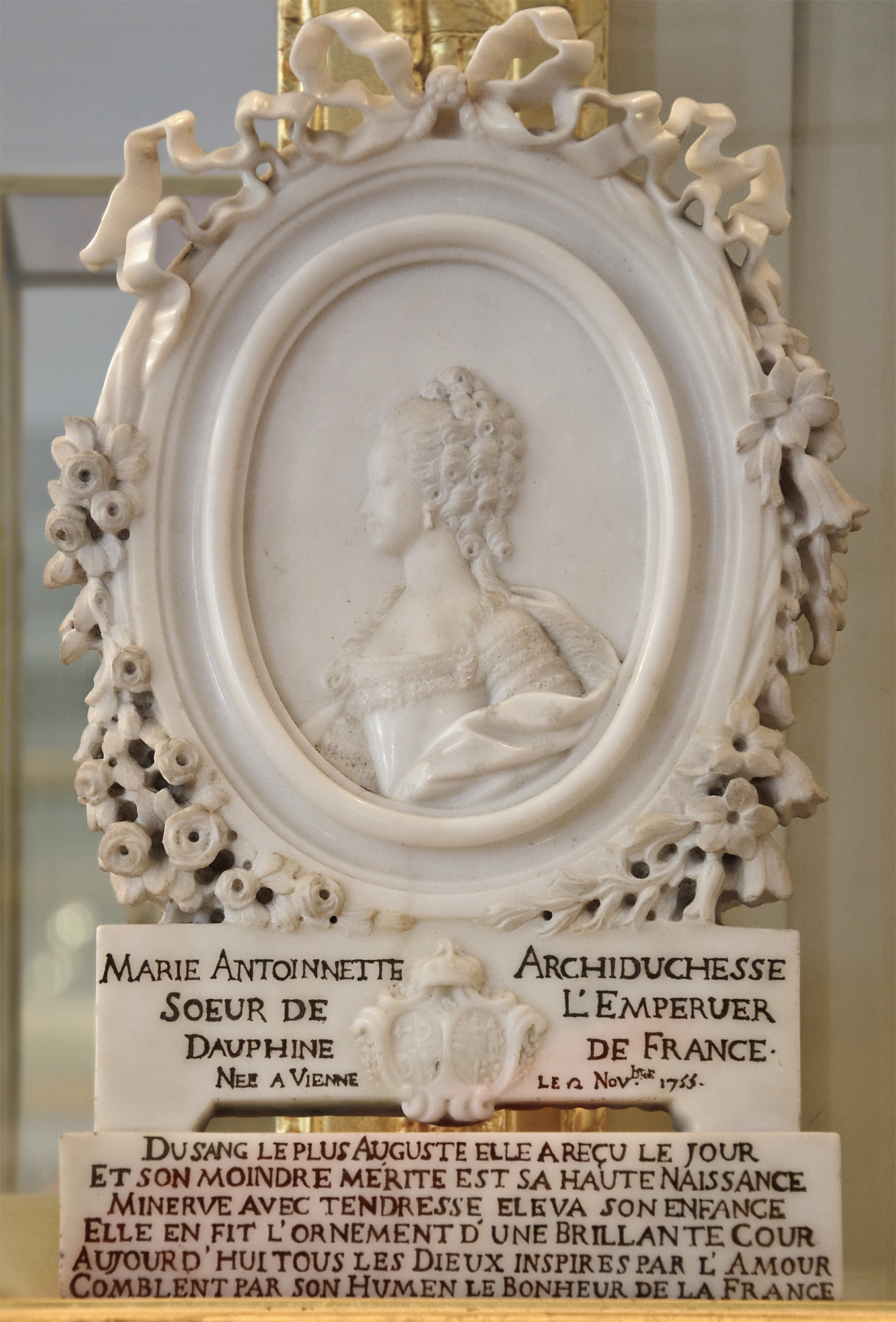 Marie Antoinette in 1770 (allegory to her marriage), Dauphine of Franceprofile facing left, in an oval medallion decorated with roses and lilies.